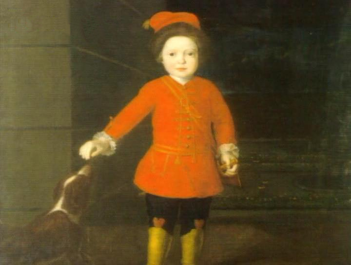 Portrait of Prince Henry of Prussia (1726–1802)